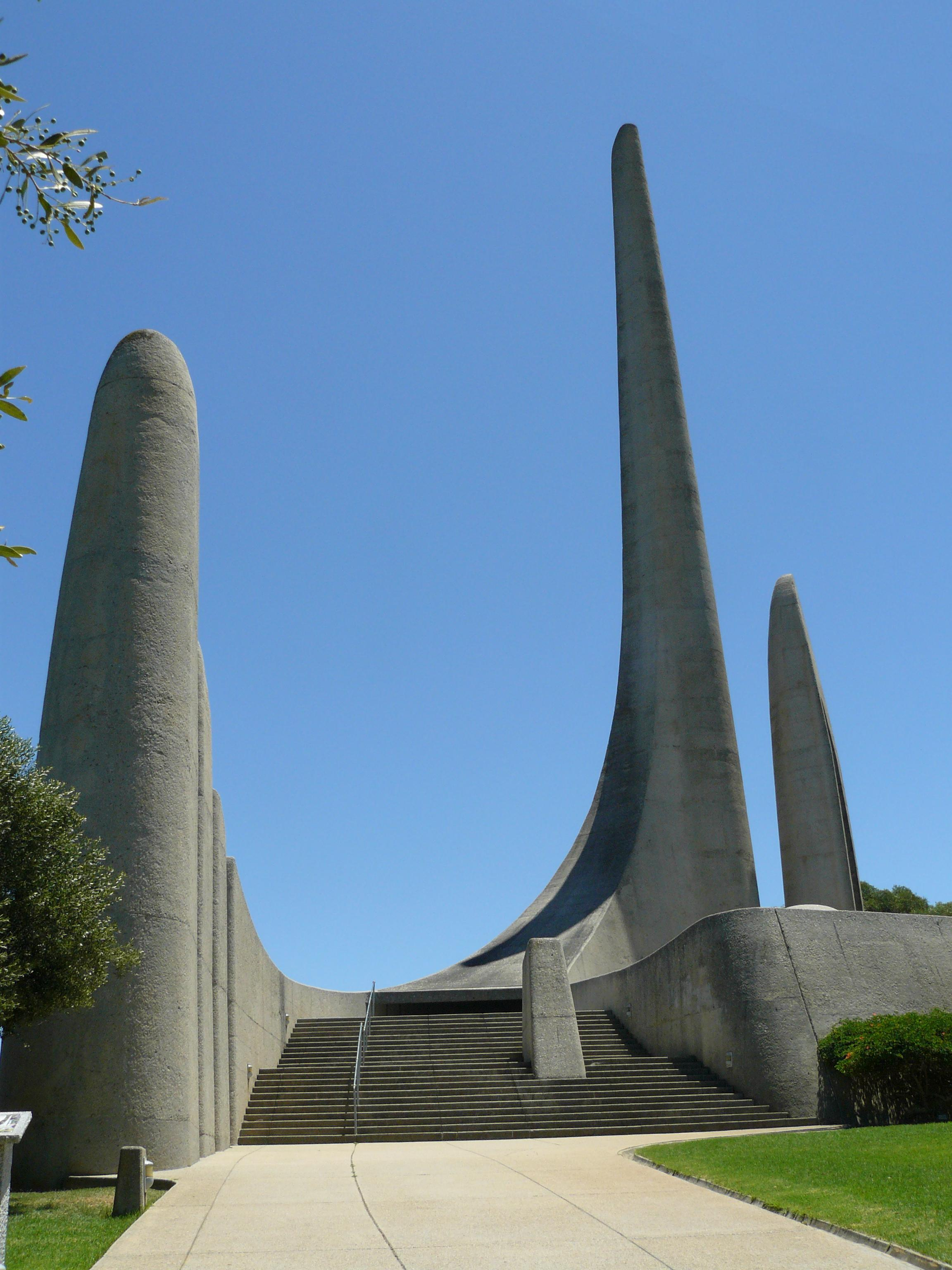 Obelisks of the Afrikaans Language Monument, near Paarl, South Africa.